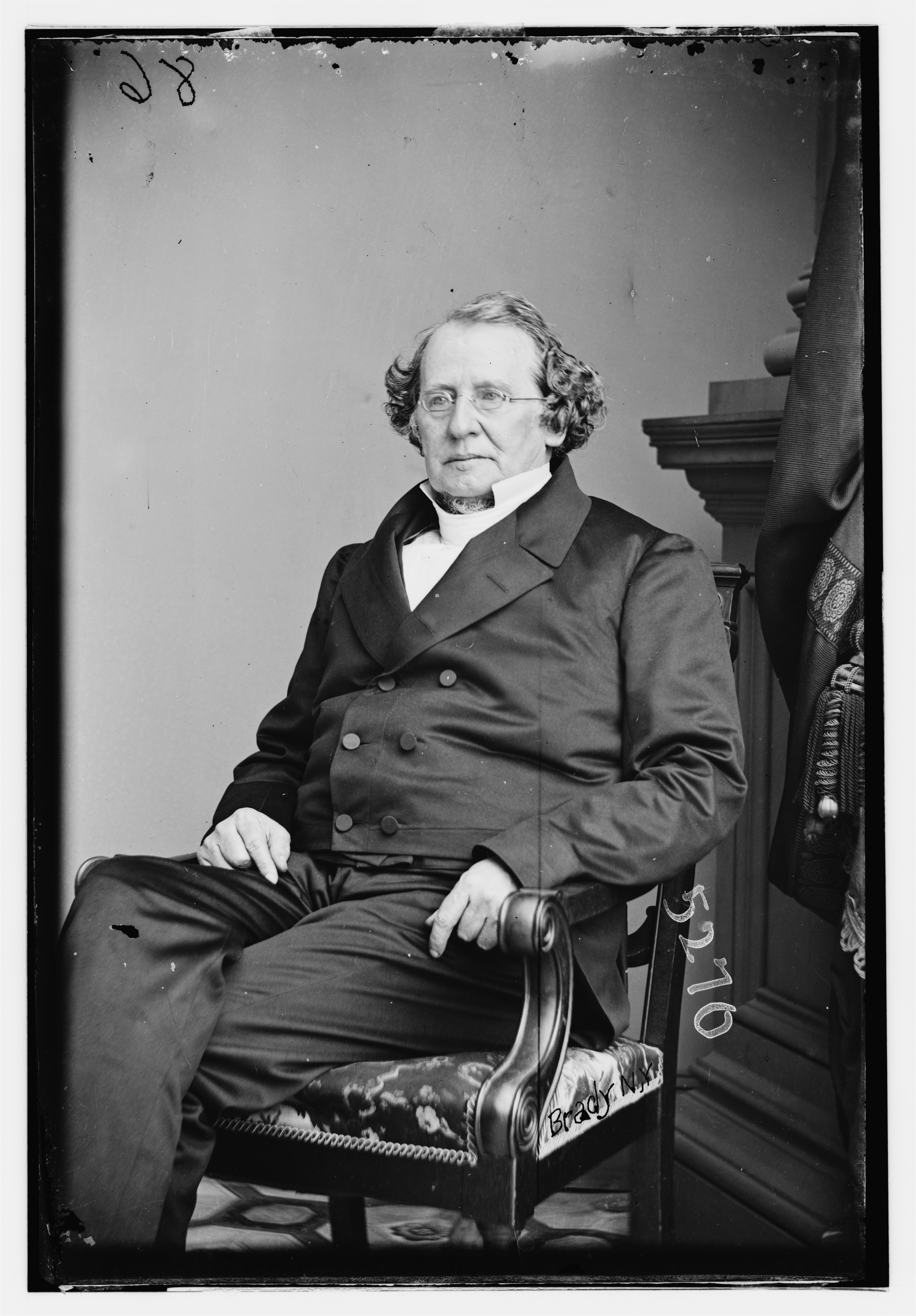 Portrait of Charles Hodge created by the studio of Mathew B. Brady at Old Capitol Prison, Washington, D.C., 1865-1878. Portrait of Charles Hodge created by the studio of Mathew Brady, Washington, D.C., 1865-1878.